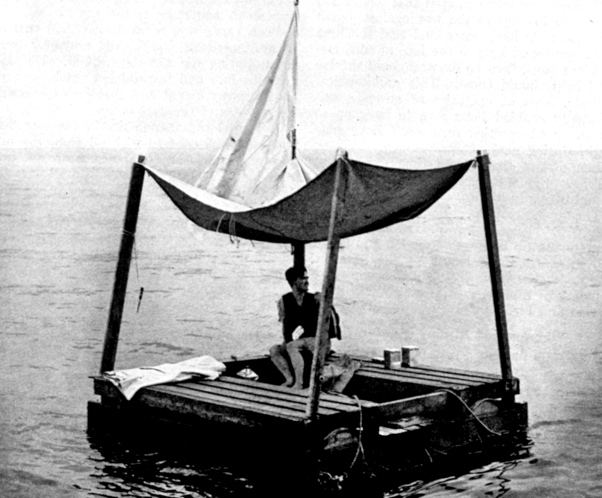 Poon Lim and his raft. Photo made on request of the US Navy for its Survival Training